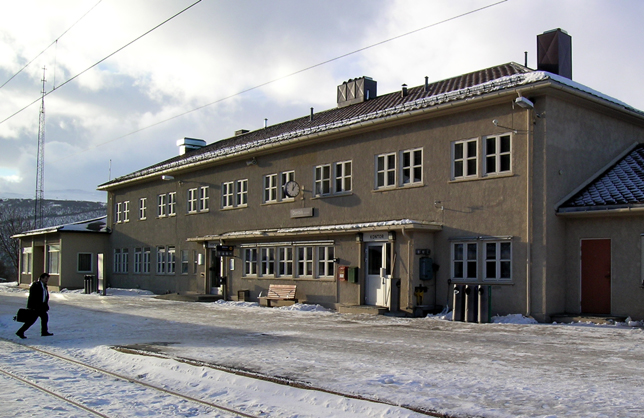 Dombås railway station, Dovrebanen.